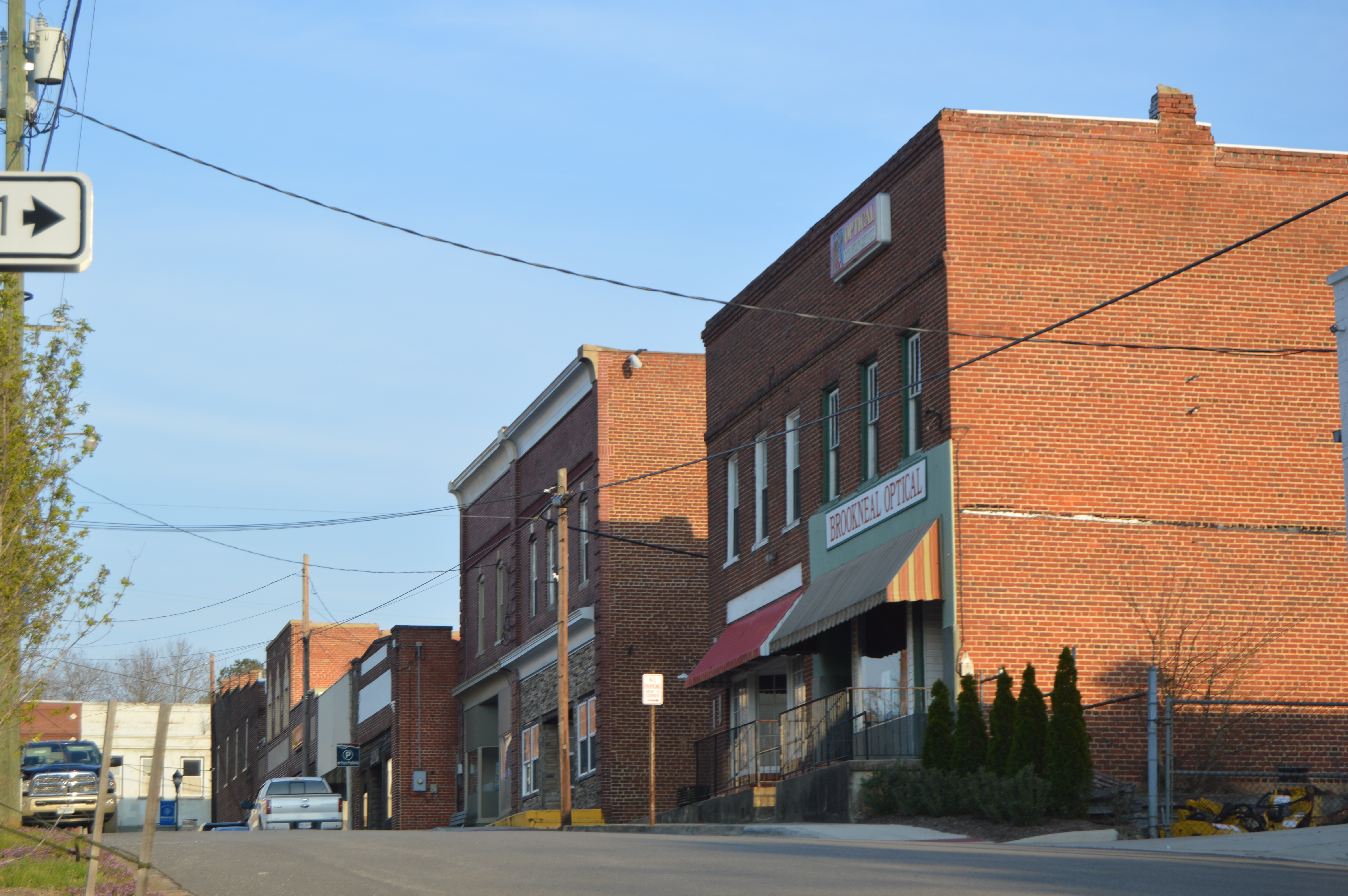 Buildings on the southern side of Rush Street in central Brookneal, Virginia, United States. This block is part of the Brookneal Historic District, a historic district that is listed on the National Register of Historic Places.